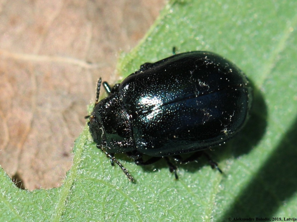 Plagiosterna aenea